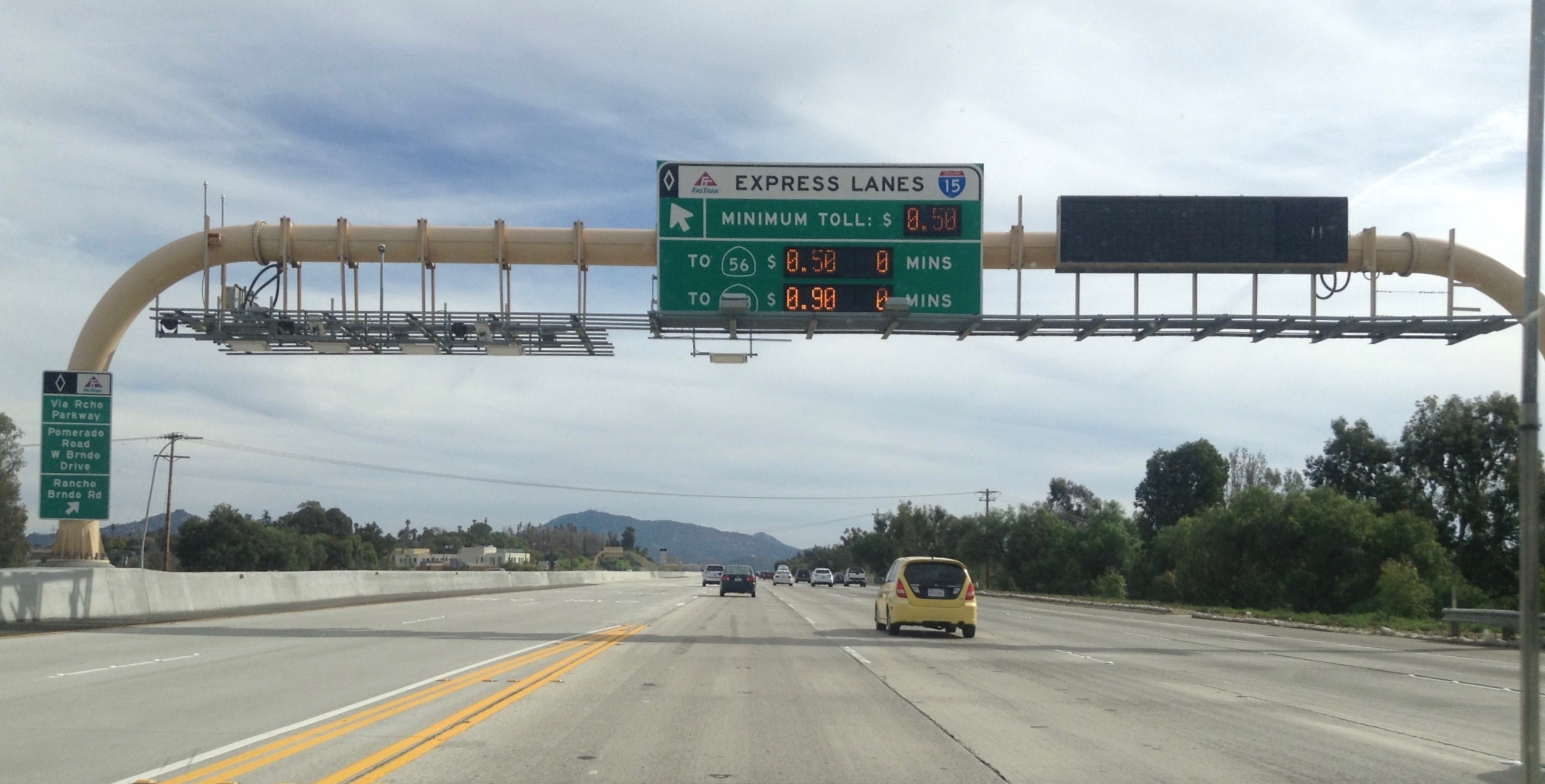 Express lanes along Interstate 15 southbound near Escondido, CA.